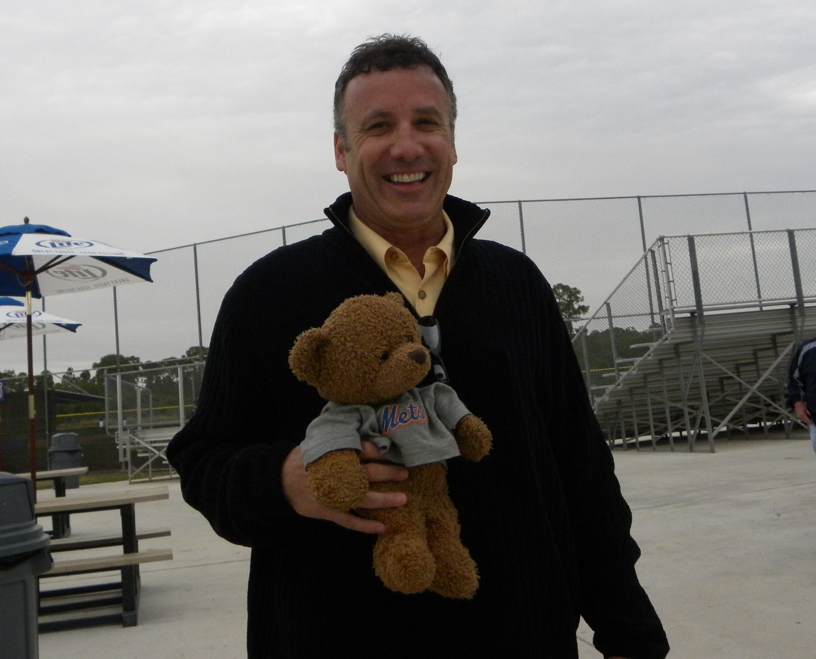 Bob Ojeda